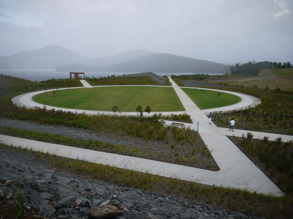 Open Space at Hinze Dam, following Stage 3 Upgrade (December 2011)